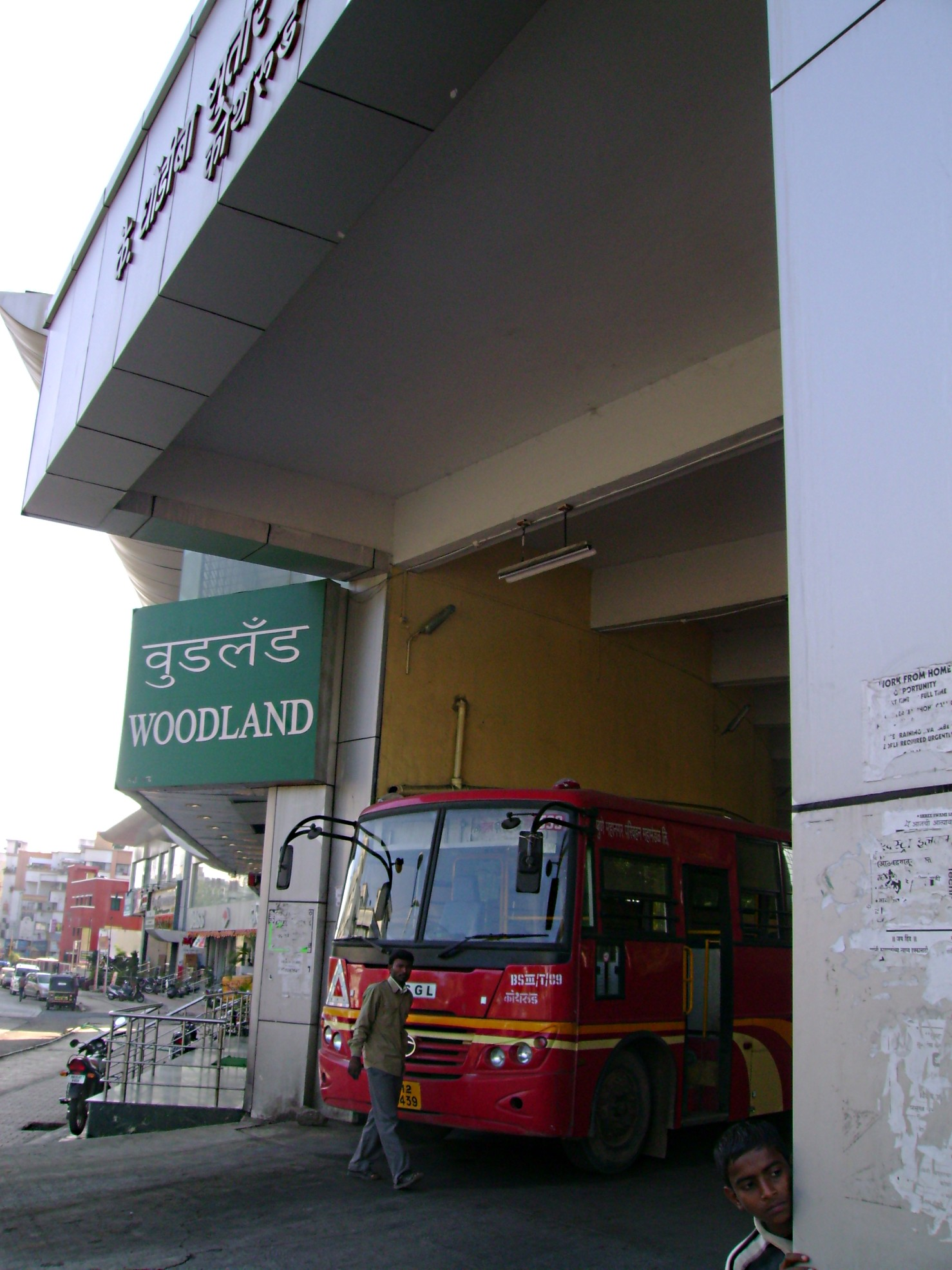 Bus departing from 'Dhondiba Sutar Bus Stand' (aka Kothrud Bus Stand), Kothrud, Pune.